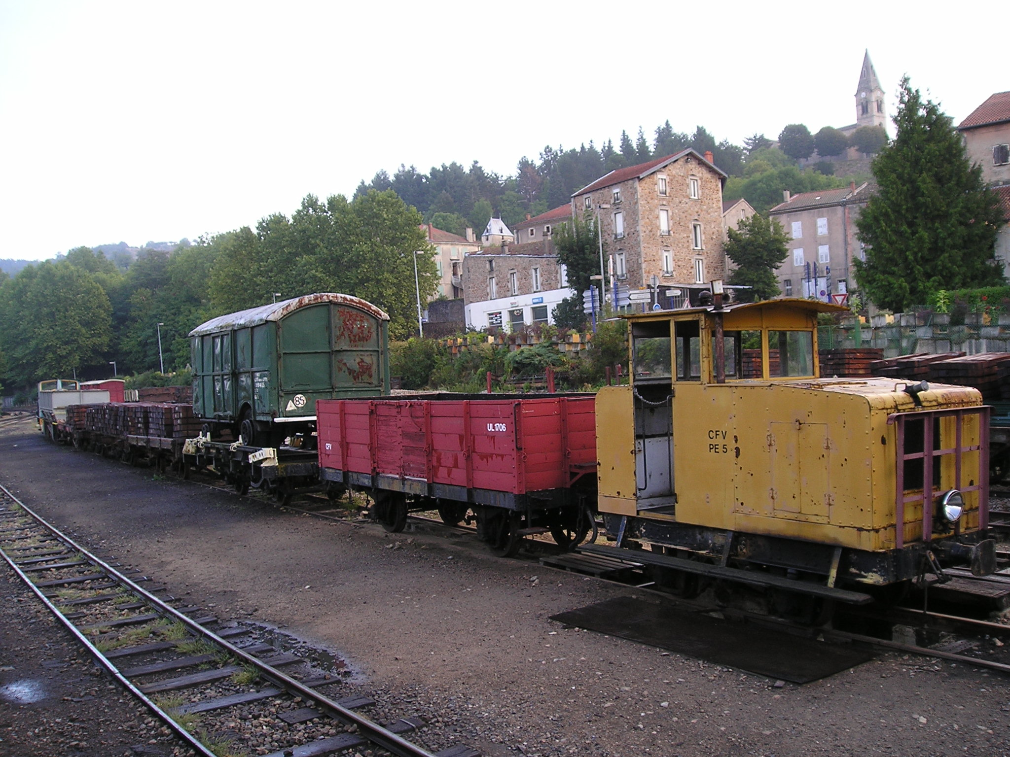 Samples of cars and diesel engine in chemin de fer du vivarais